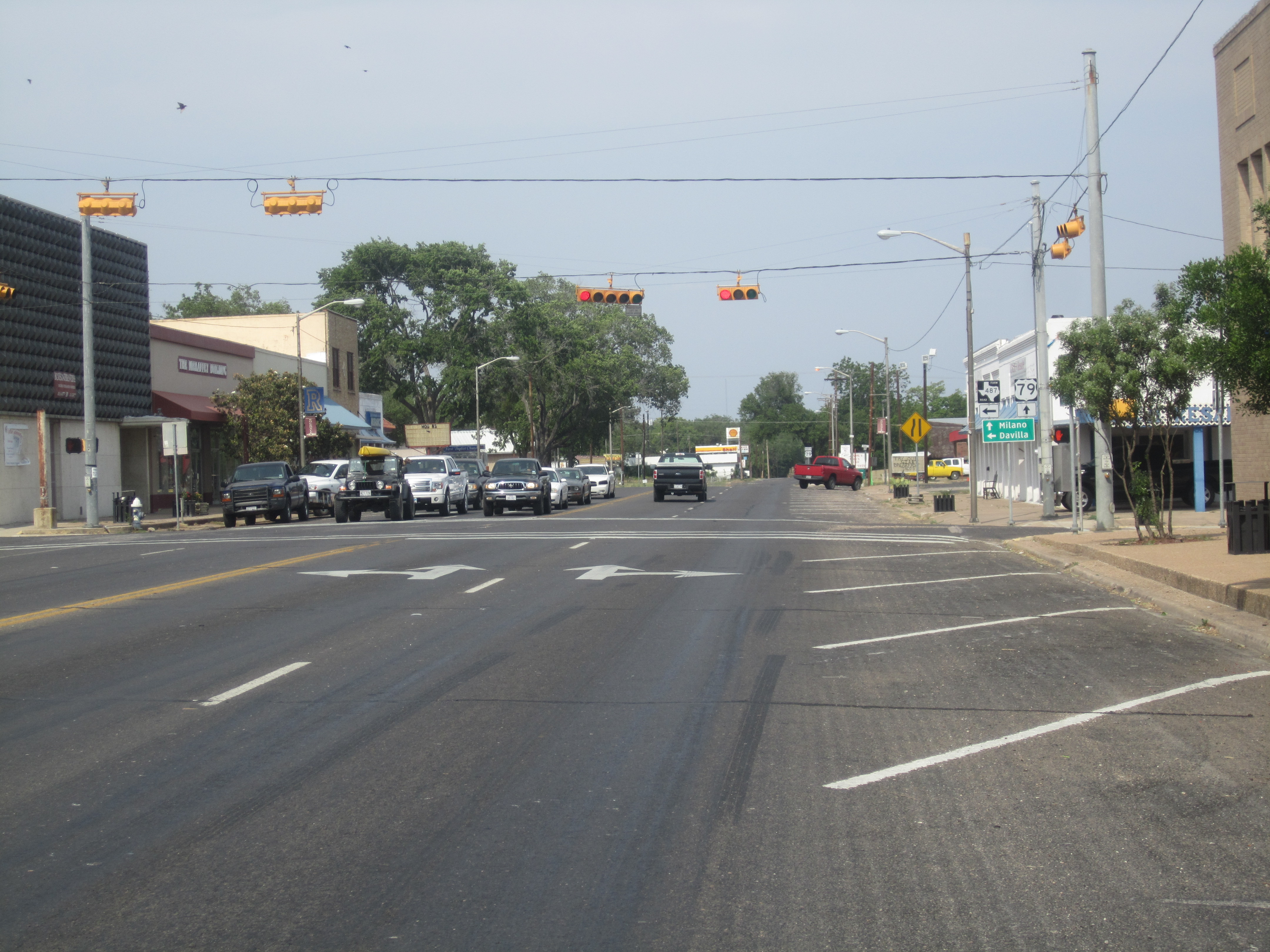 I took photo of U.S. Route 79 in Rockdale, TX, with Canon camera.